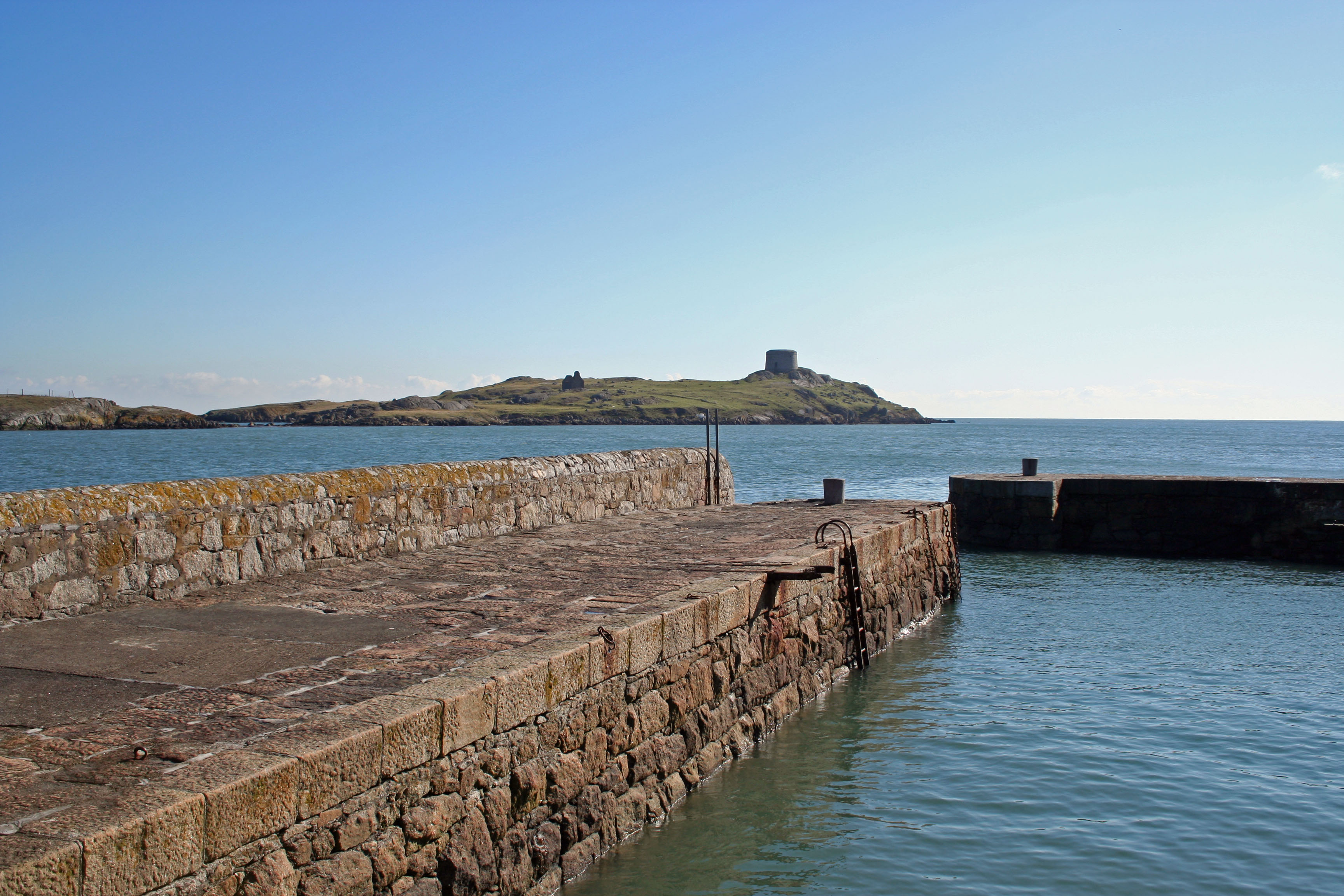 Dalkey Island